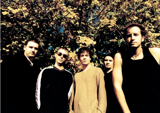 Banda argentina de rock, conformada por Anel Paz - Guitarra Federico "Tío" Ariztegui- Teclados Fernando Buriasco - Bajo Emmanuel Cauvet - Batería Martín Misenta - Voz